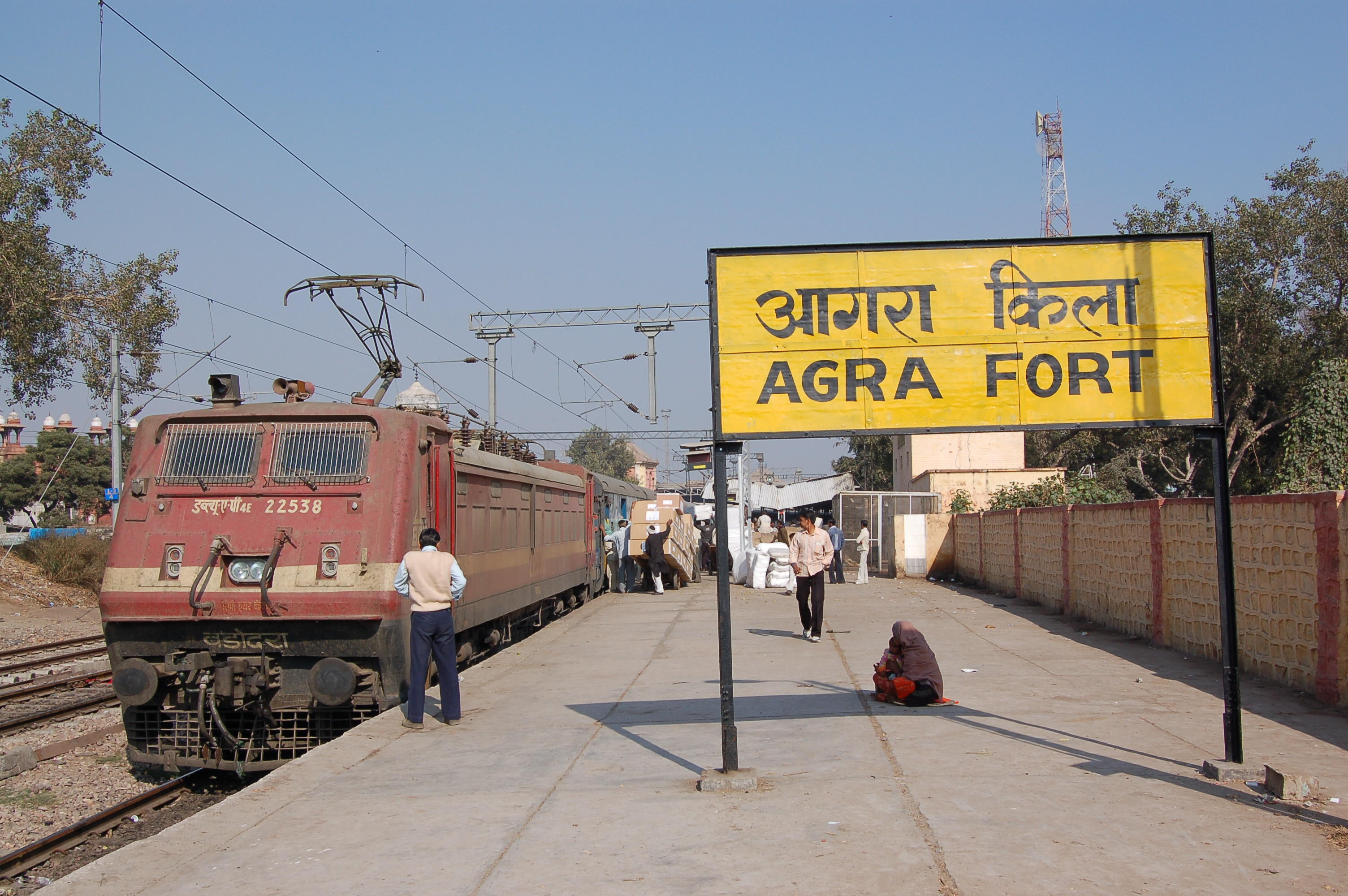 Indian Railways WAP-4 class electric locomotive no 22538, with a westbound passenger train at Agra Fort railway station (Indian Railways station code AF).